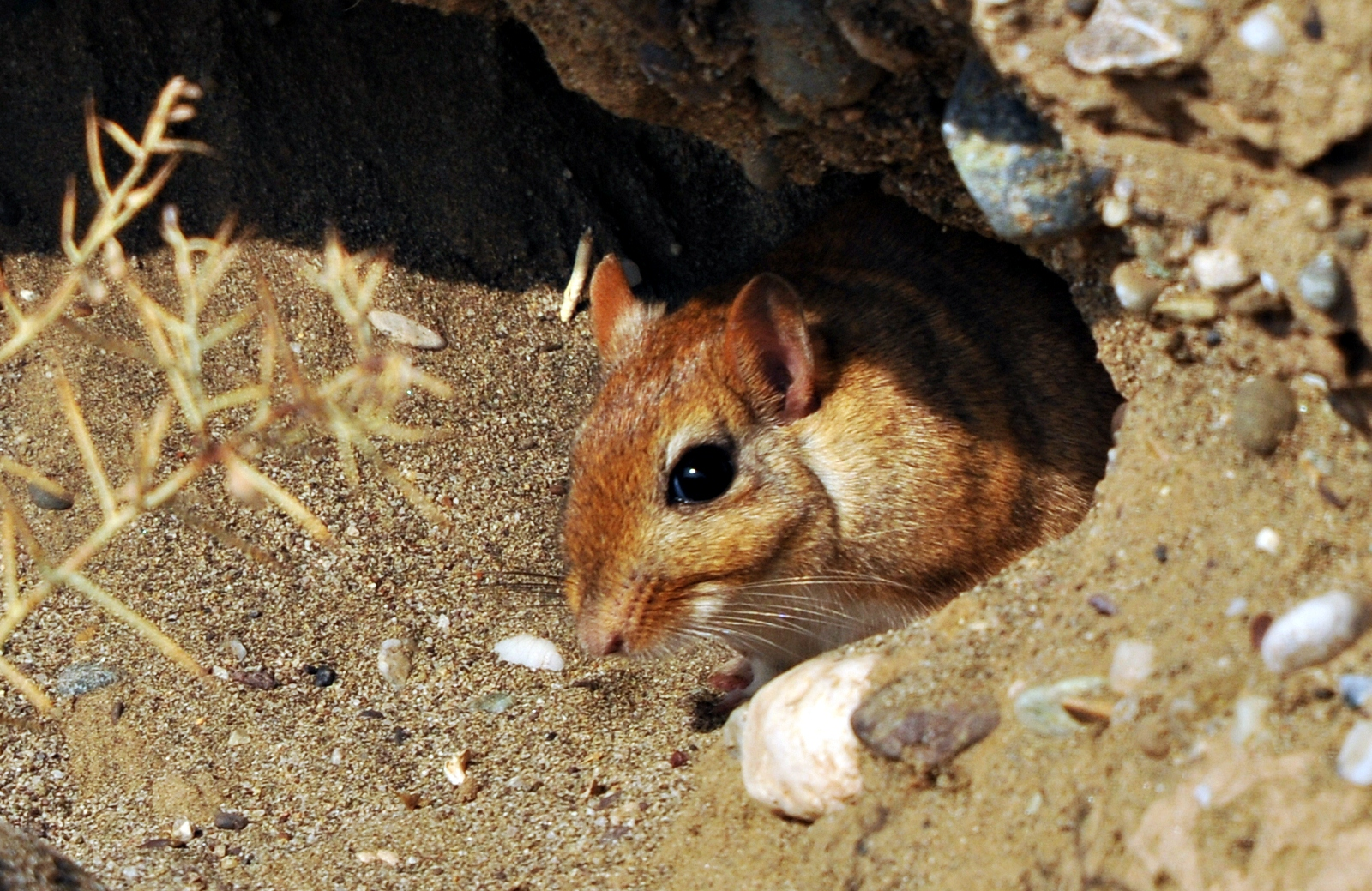 A Tristam's jird (Meriones tristami) poking its head out of its burrow, near Diyarbakir in southeastern Turkey Kurdî: Li Bismilê hatiye kişandin...Meriones tristrami...